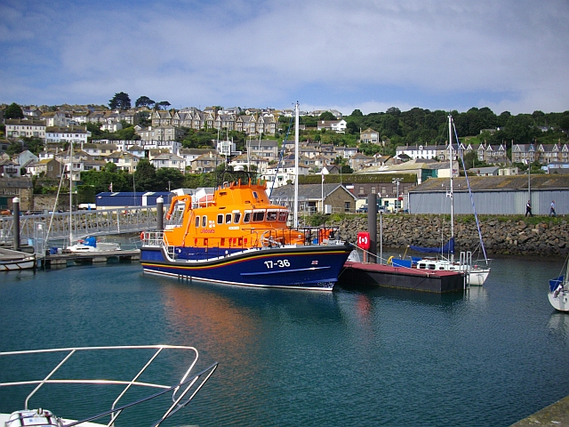 Newlyn lifeboat Moored in Newlyn harbour ready for action.